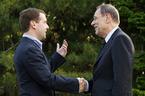 KHANTY-MANSIISK. With Secretary General of the European Council Javier Solana.